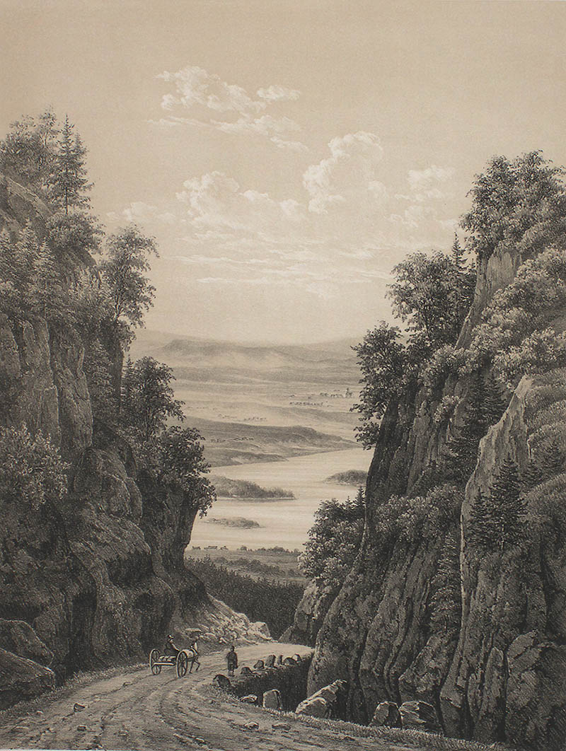 Pictures from the work "Norge fremstillet i Tegninger" from 1848 by Christian Tønsberg.